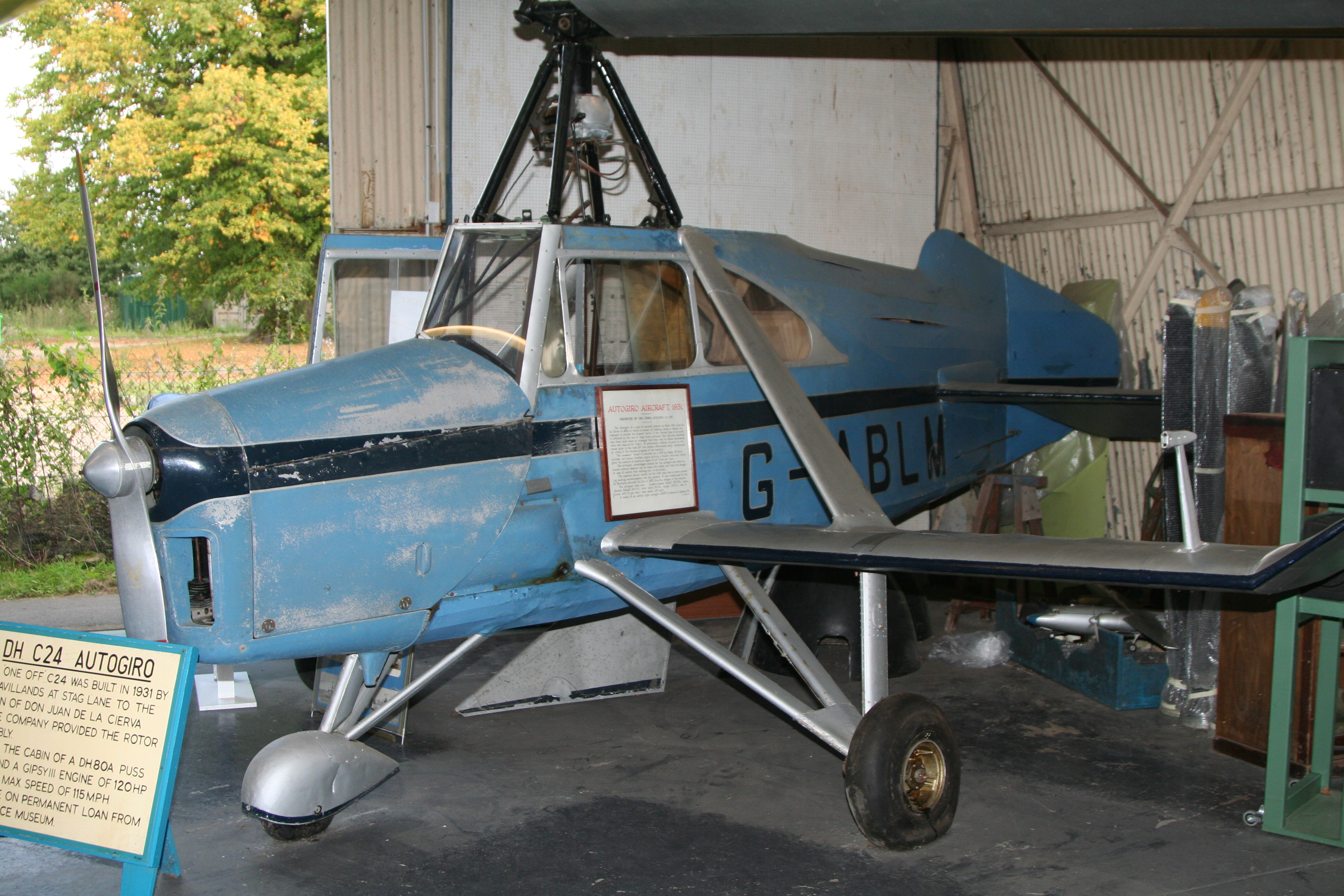 de Havilland C.24, sole example produced (G-ABLM) at the de Havilland Heritage Centre, near London Colney, in September 2008.